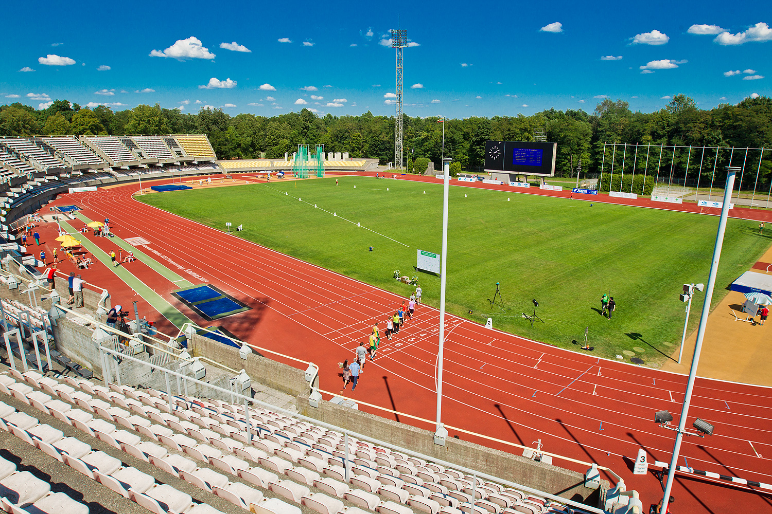 Darius Girenas Stadium in Kaunas (Lithuania)